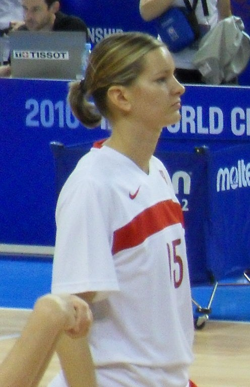 Eva Vítečková; in: Japan - Czech Republic match at 2010 FIBA World Championship for Women, Brno, Czech Republic